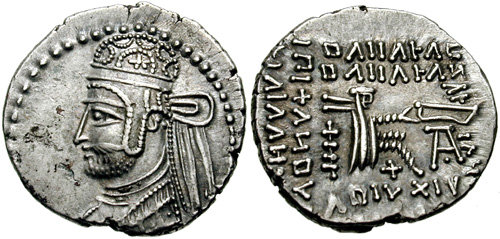 Coin of Parthamaspates, a Parthian ruler.